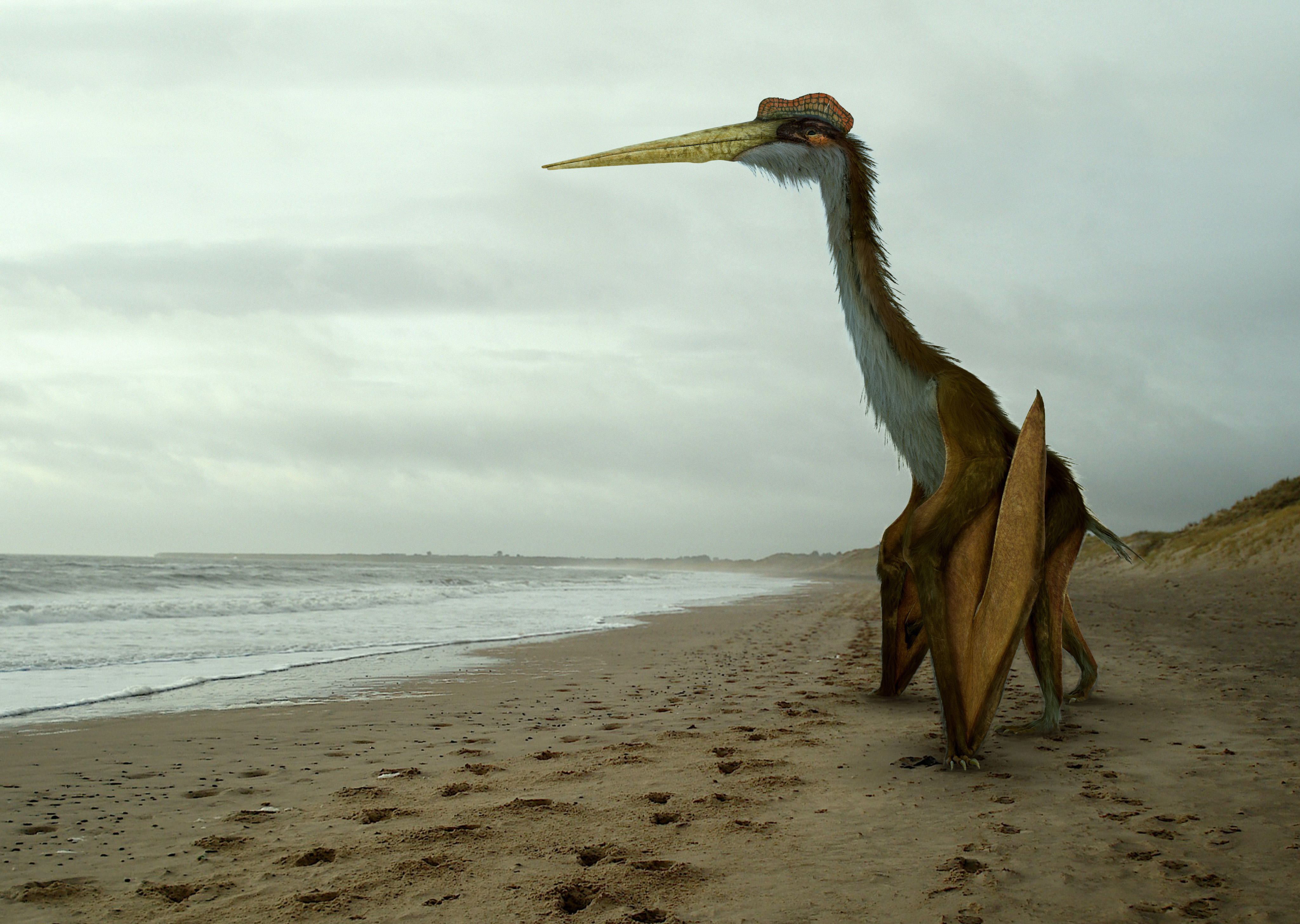 Life restoration of Quetzalcoatlus